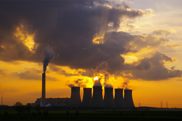 Eggborough Power Station at Sunset